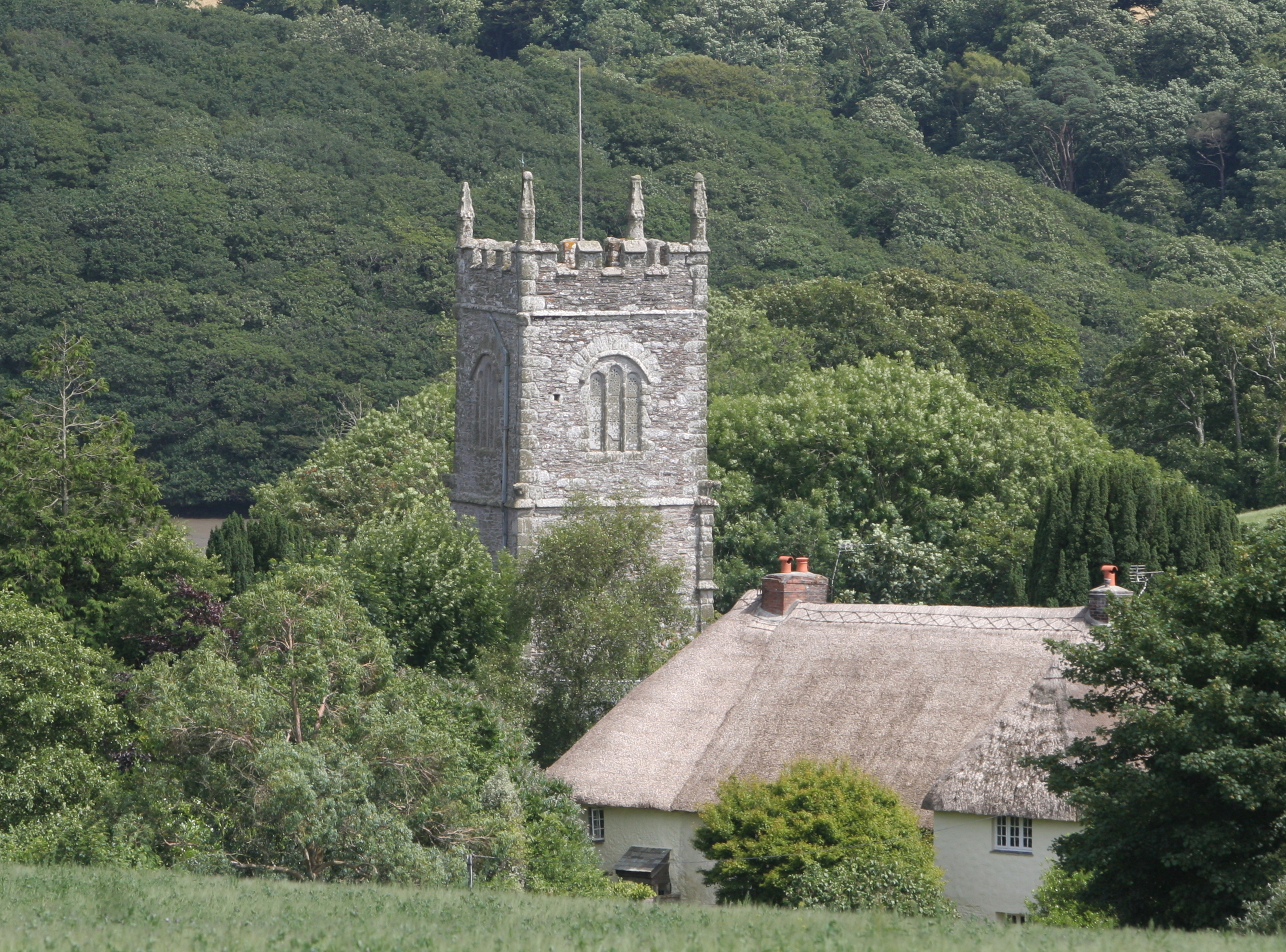 St. Clement's church in the hamlet of the same name near Truro, Cornwall